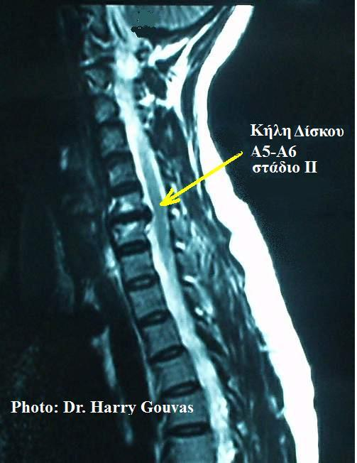 Cervical disk herniation MRI